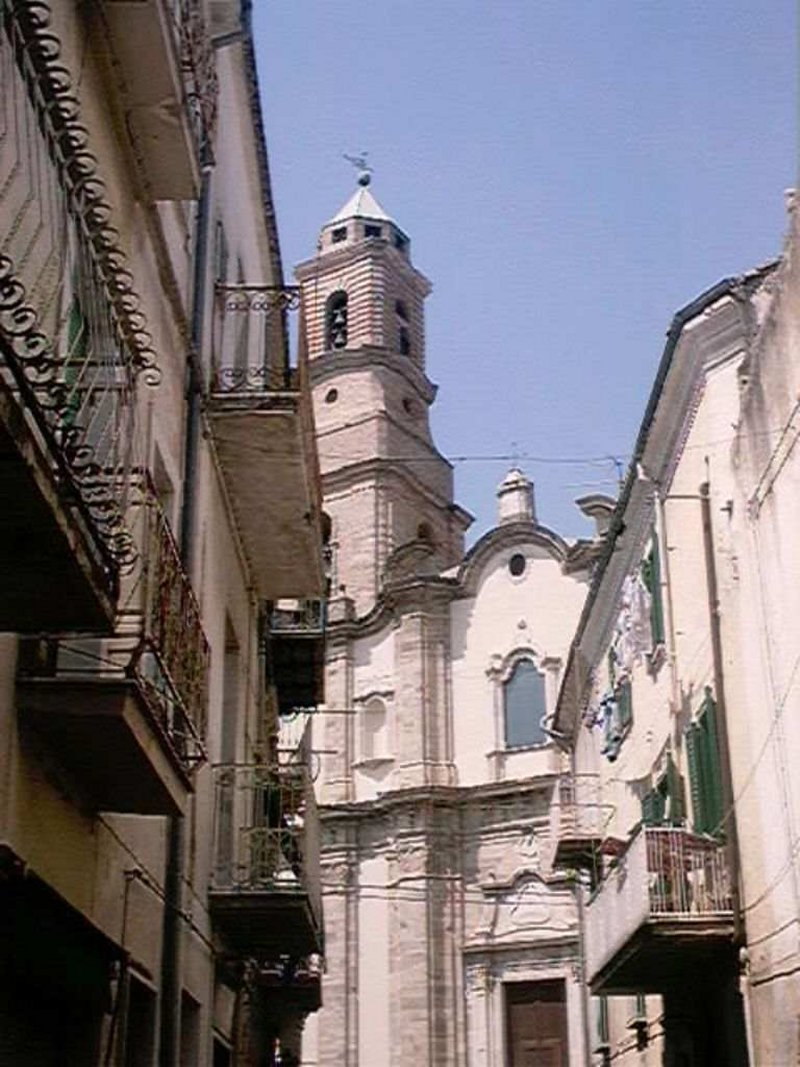 S. Peter Church